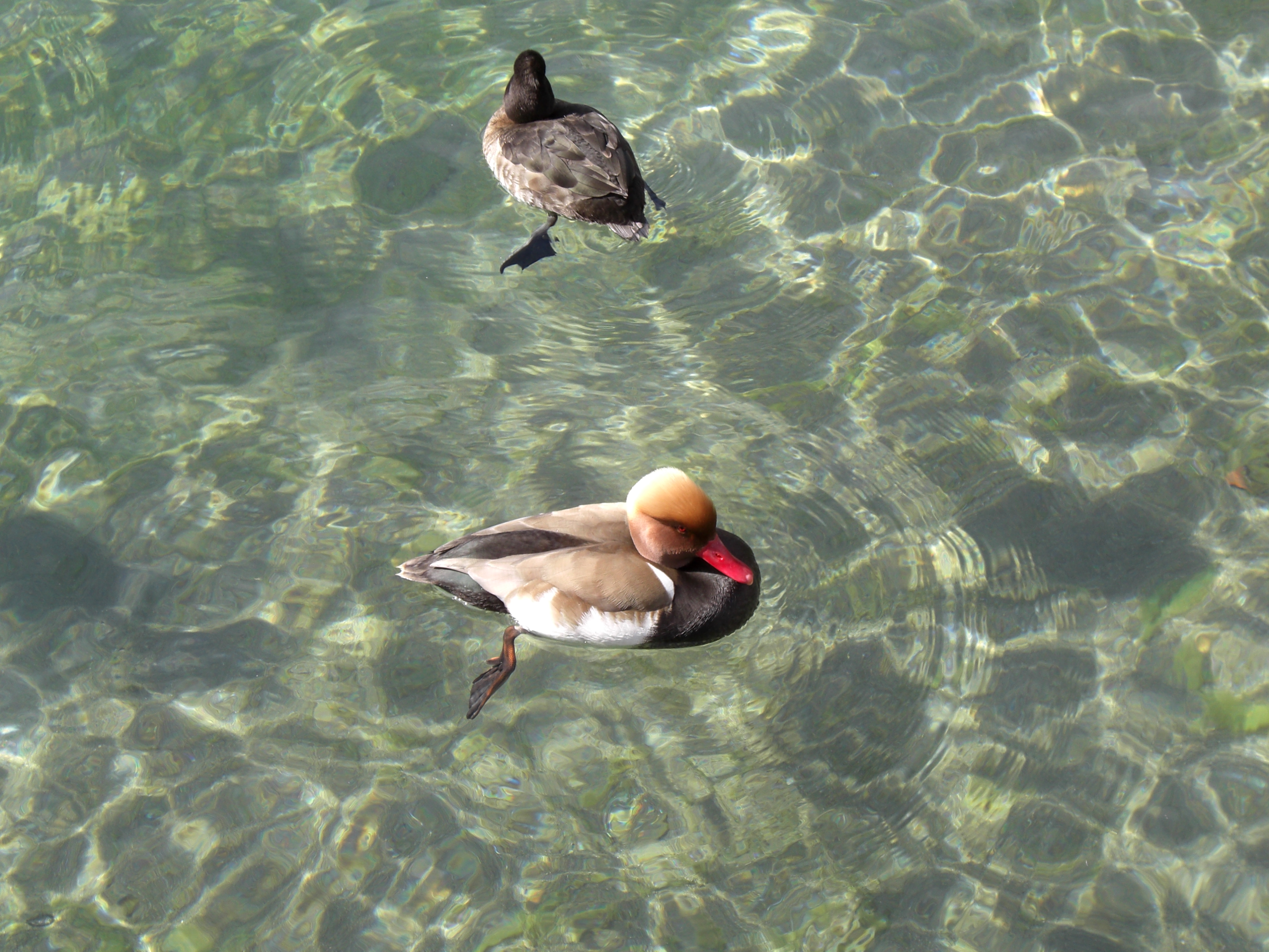 Red-crested Pochard Netta rufina in the town of Thun, Switzerland